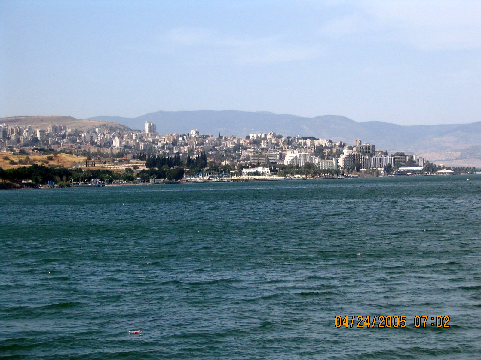 Sea of Galilee and Tiberias